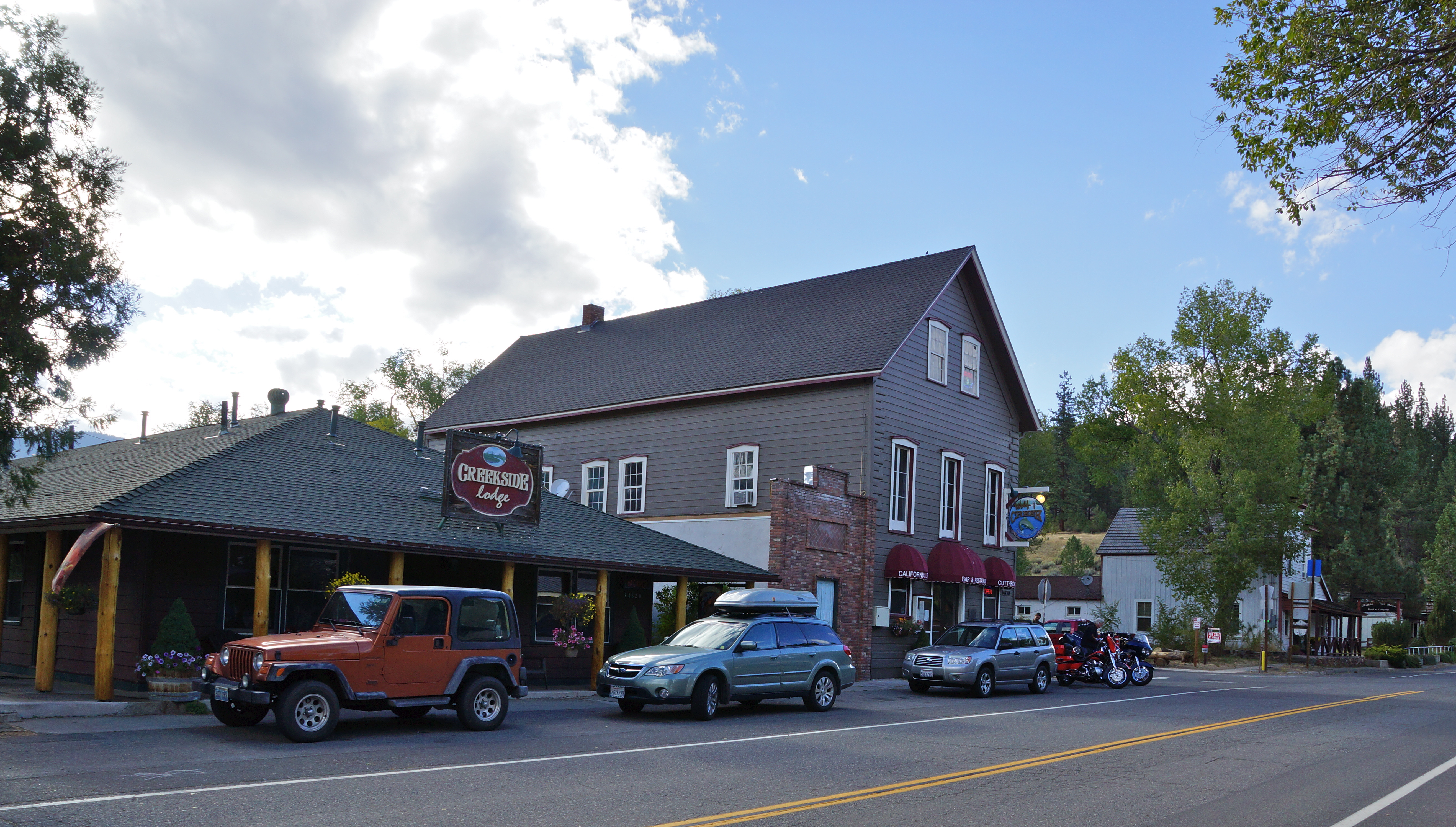 California (Markleeville), United States: Creekside Lodge